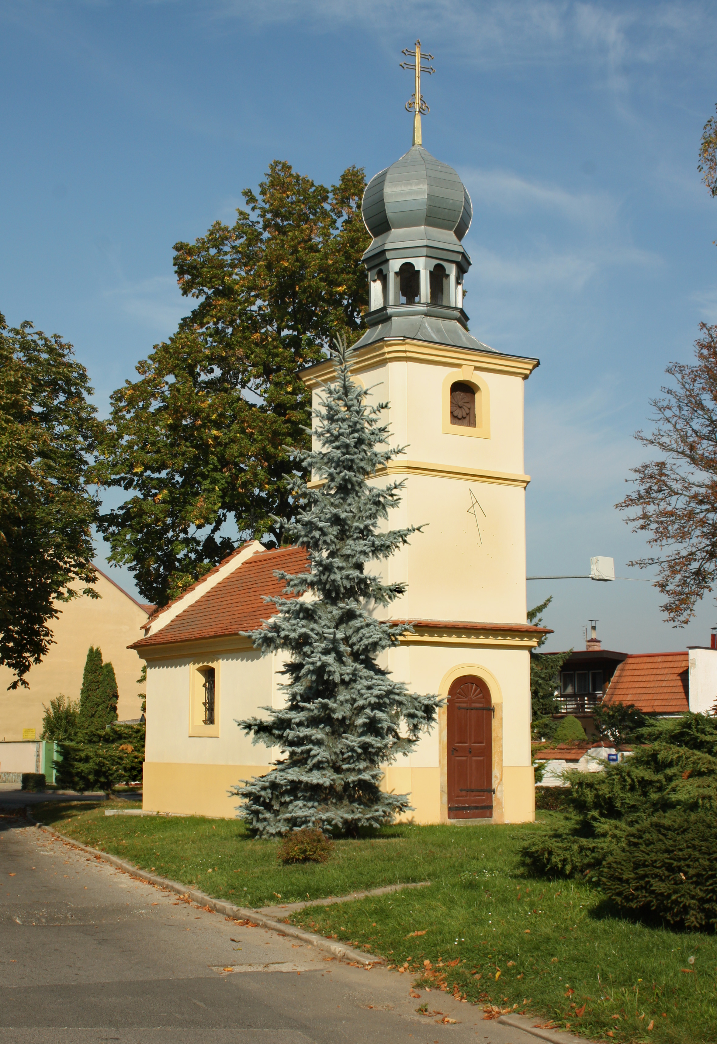 St. Florian's Chapel in Lázně Toušeň, Czech Republic